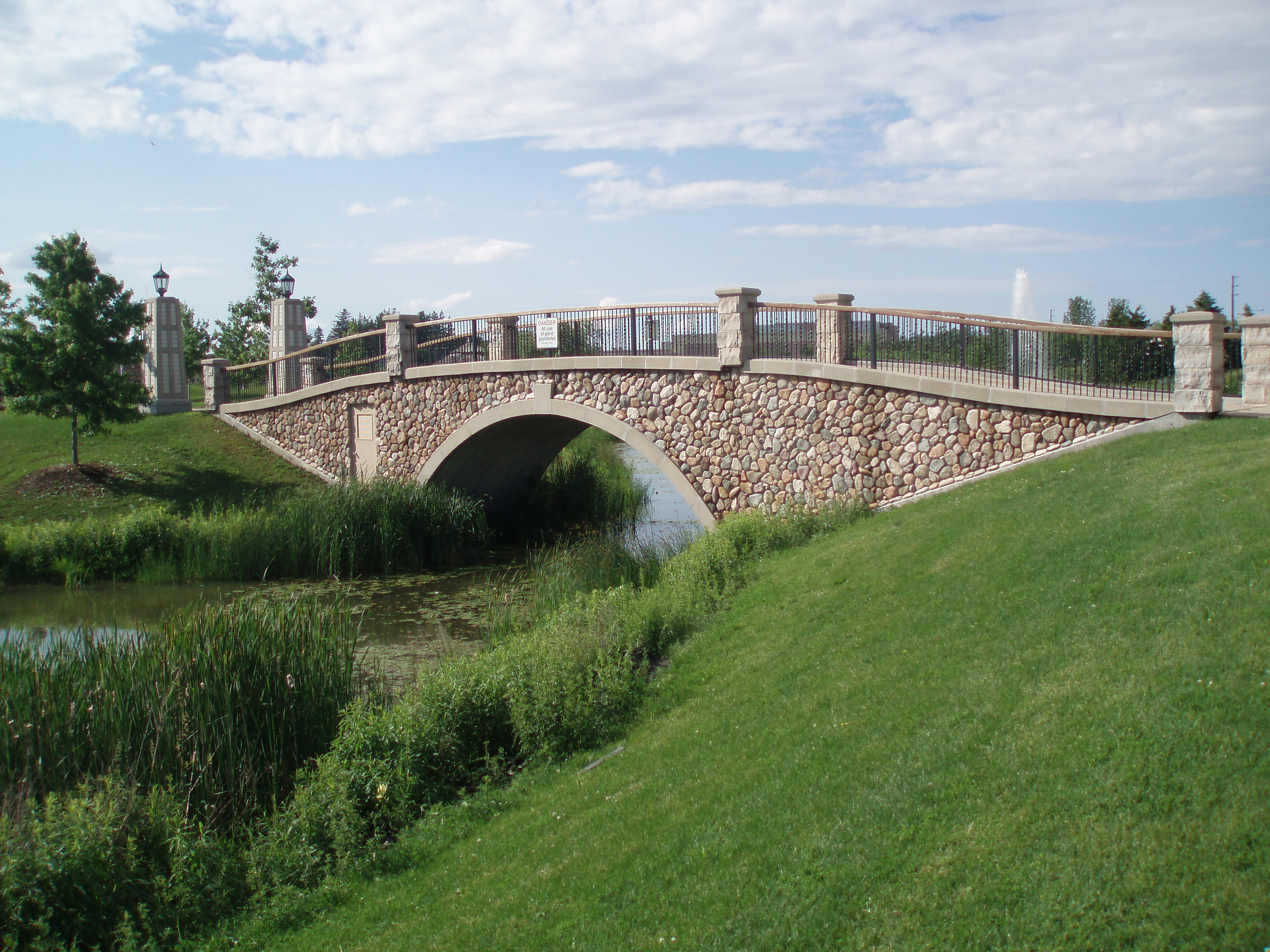 Richmond Green Sports Centre & Park 1300 Elgin Mills Road East Richmond Hill, Ontario Canada